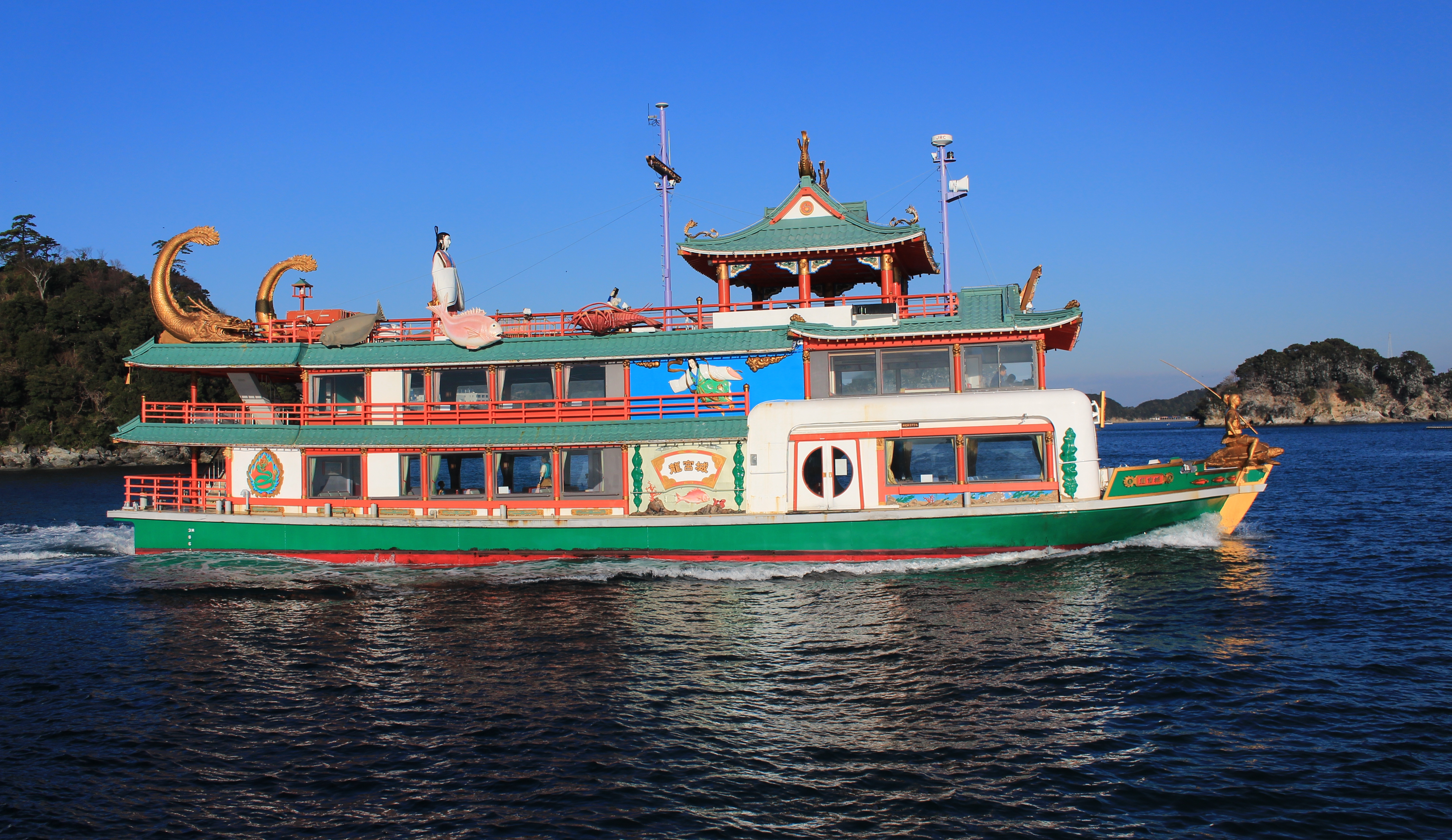 Ryūgūjō (ship, 1996) of Shima Marine Leisure in Toba Bay, Mie prefecture, Japan.